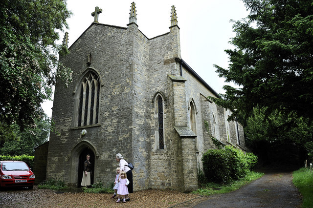 Roman Catholic church of the Holy Trinity, Hardwick Road, Hethe, Oxfordshire